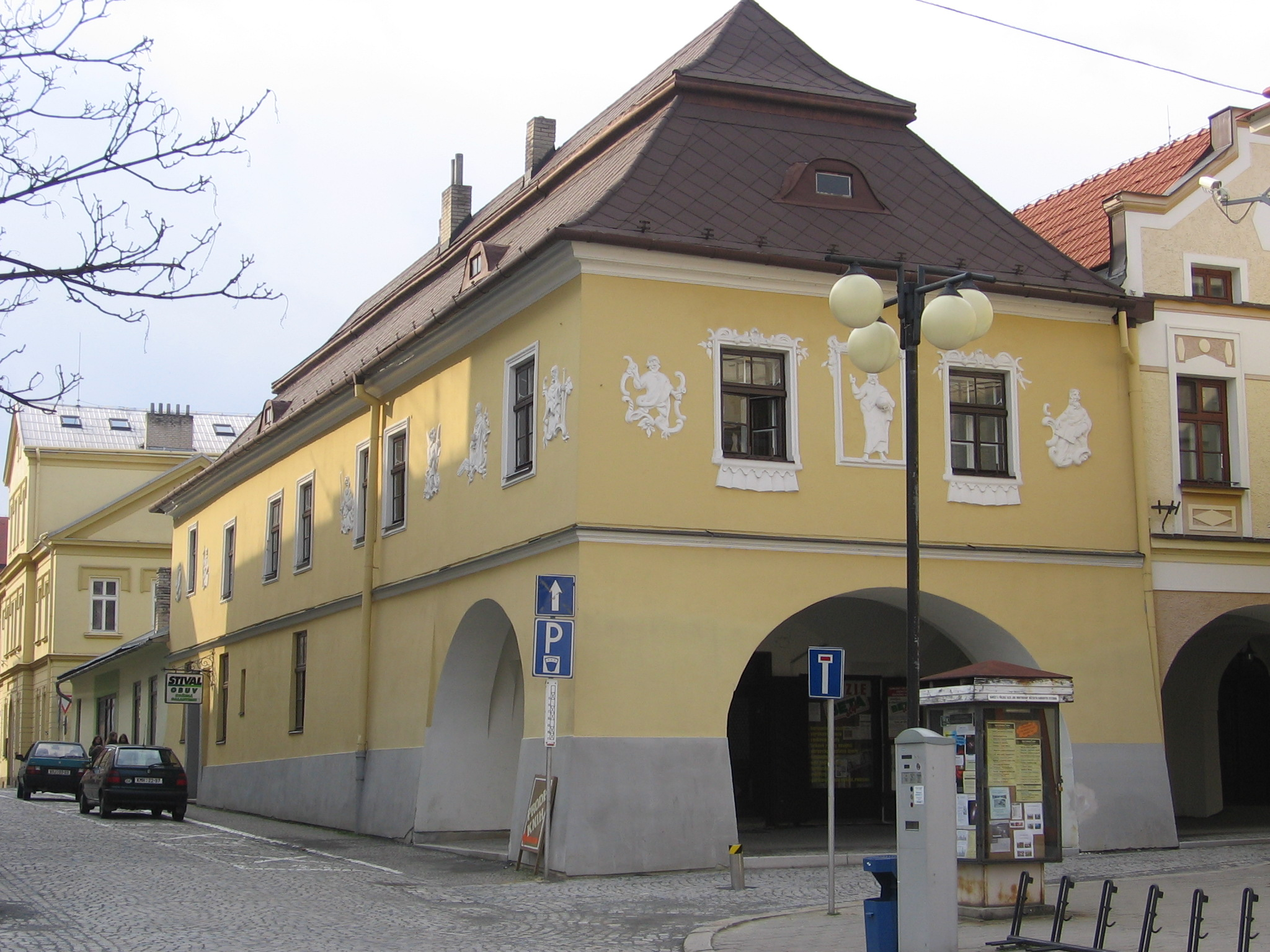 House at the apostles in Valašské Meziříčí, the Czech Republic